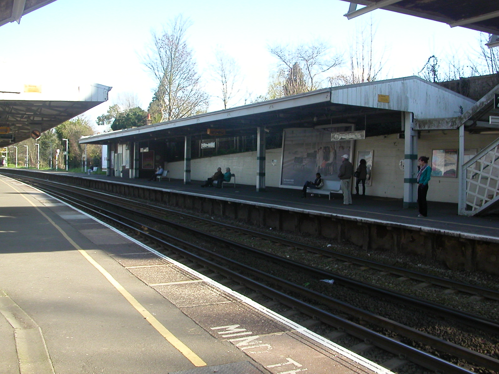 View across the platforms at Carshalton Beeches station. Photographed on 17th March 2007.